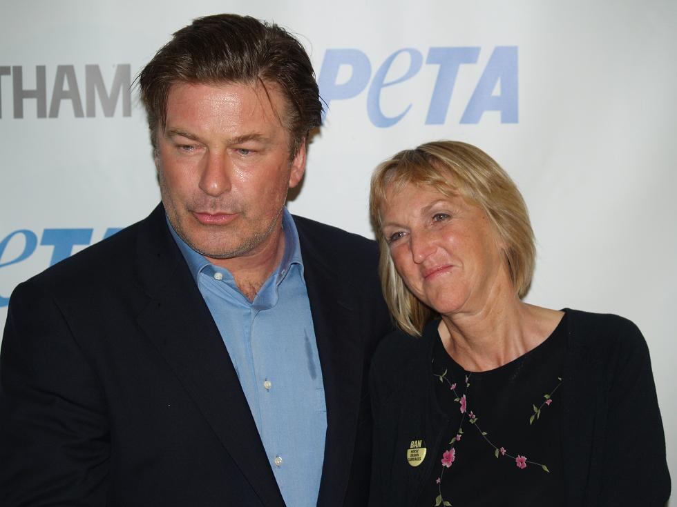 Alec Baldwin and Ingrid Newkirk at a PETA event honoring filmmaker Donny Moss receiving an award for his film Blinders, an expose of the cruelty in the New York City carriage horse trade.